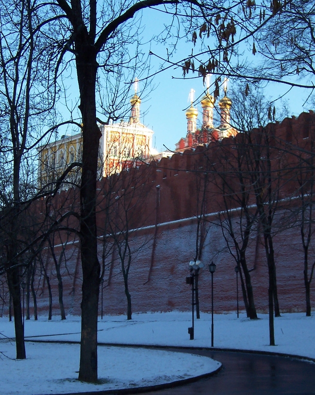 Александровский сад зимой, около памятника 300-летия Романовых. Alexander Garden in winter, the view of the Kremlin wall by the Romanov dynasty tercentenary memporial. Moscow, Russia